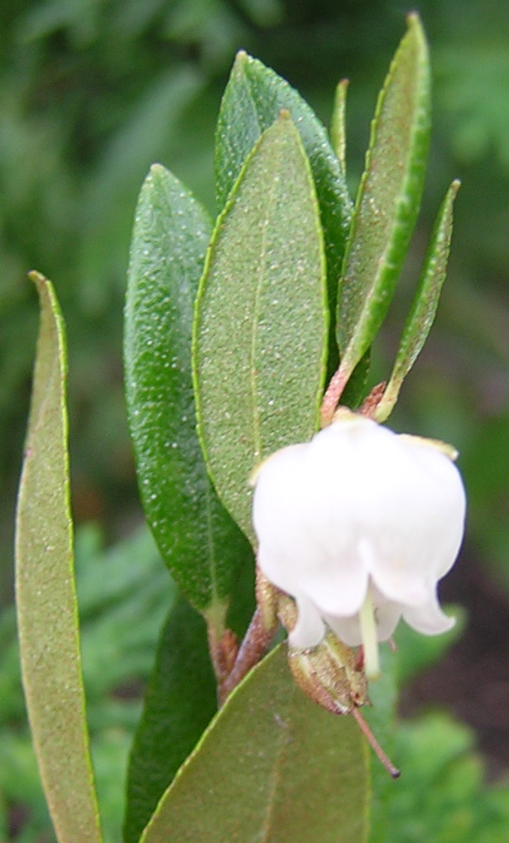 Chamaedaphne calyculata, flower. Russia, Ivanovo district, Marfino boloto